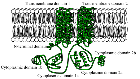 Adenylate cyclase by user:Bensaccount 23:54, 26 April 2006 Bensaccount 452x258 (60841 bytes) (Adenylate cyclase by :en:user:Bensaccount )